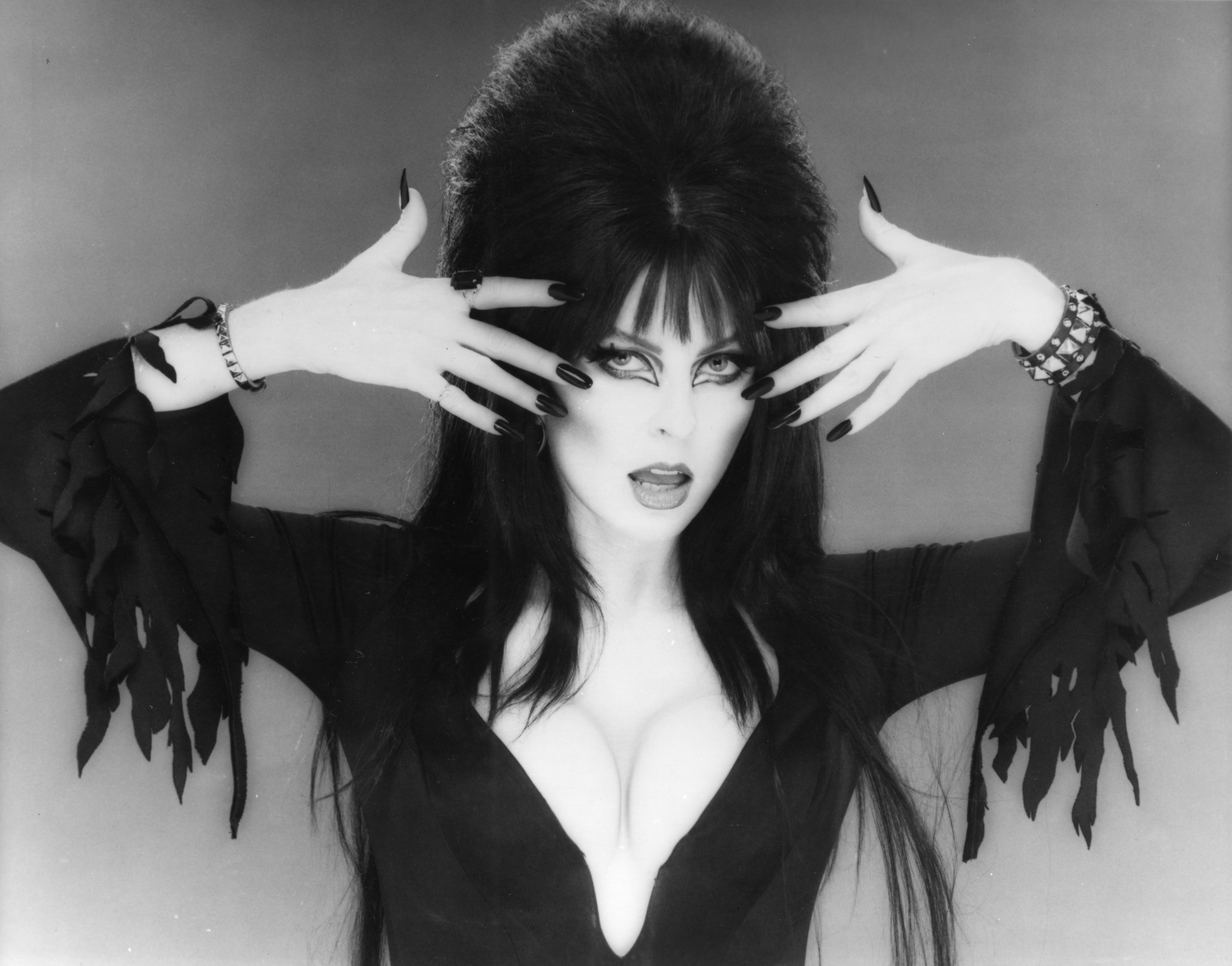 Photo used to promote Elvira's appearances at Knott's Berry Farm's 1986 Halloween Haunt in Buena Park. There are no known copyright restrictions on this image. All future uses of this photo should include the courtesy line, "Photo courtesy Orange County Archives." Comments are welcome after reading our Comment Policy. From the Knott's Berry Farm Collection